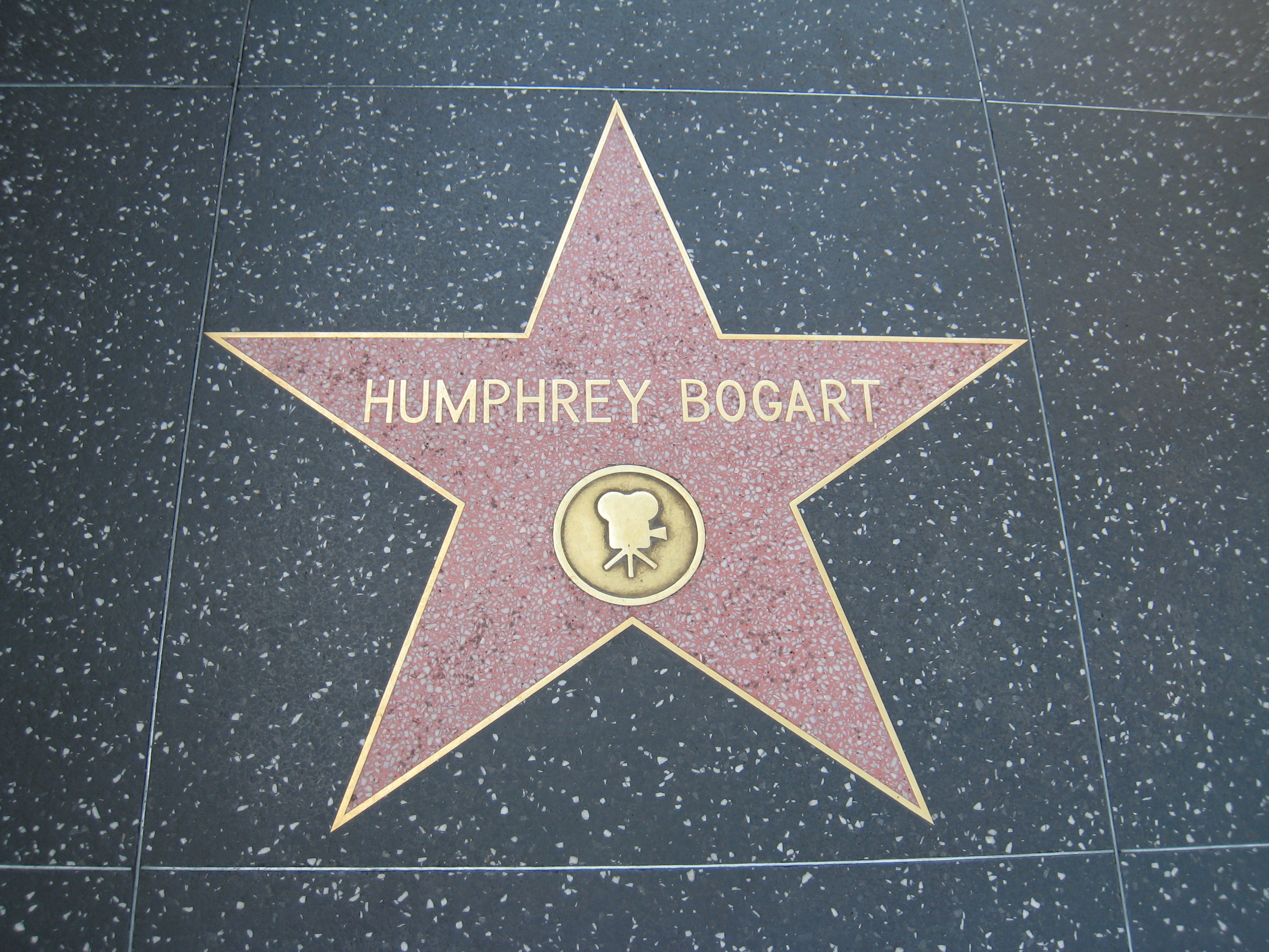 Humphrey Bogart's star on the Hollywood Walk of Fame